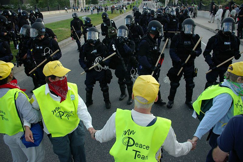 This is a photo of Meta Peace Team (formerly Michigan Peace Team) members making a human chain in front of armored and armed law enforcement units at the 2008 Republican National Convention.